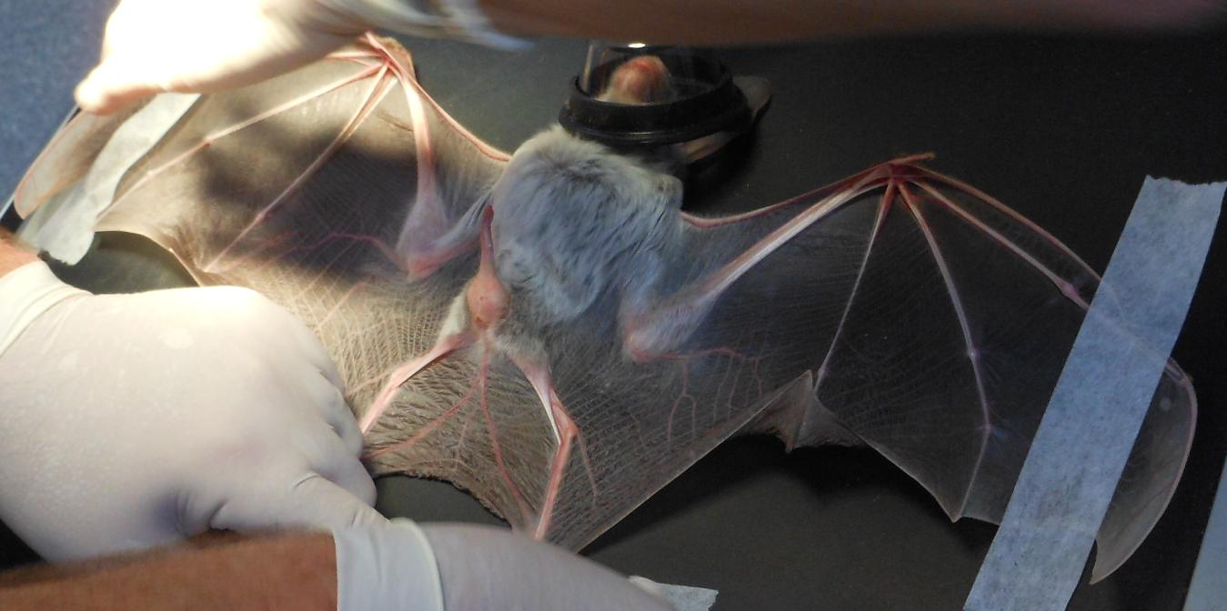 Ghost bat (Macroderma gigas) under sedation for medical check, South Australia, December 2013